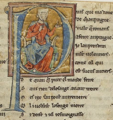 Bibliothèque national de France manuscript français 794, fol. 27r, top of 2nd column. Showing the historiated letter 'P' and first line of Yvain, the Knight of the Lion